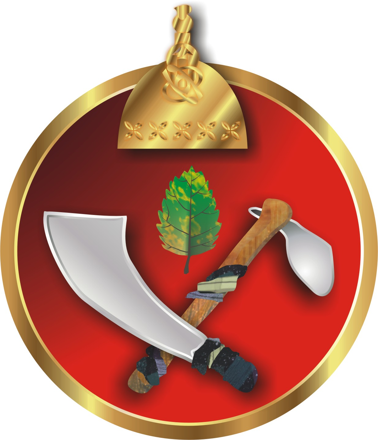 The official crest/coat-of-arms of the Erunmu Owu people. Image was conceptualised and drafted by the Erunmu-Owu Descendants Union, London branch, of which Niyi Ijaola (oldest son of Oluroko, Oba Erunmu, Hon Chief Olugbolahan Ijaola) is a member. The final artwork was rendered by Emrys Ijaola, in consultation with Niyi Ijaola.